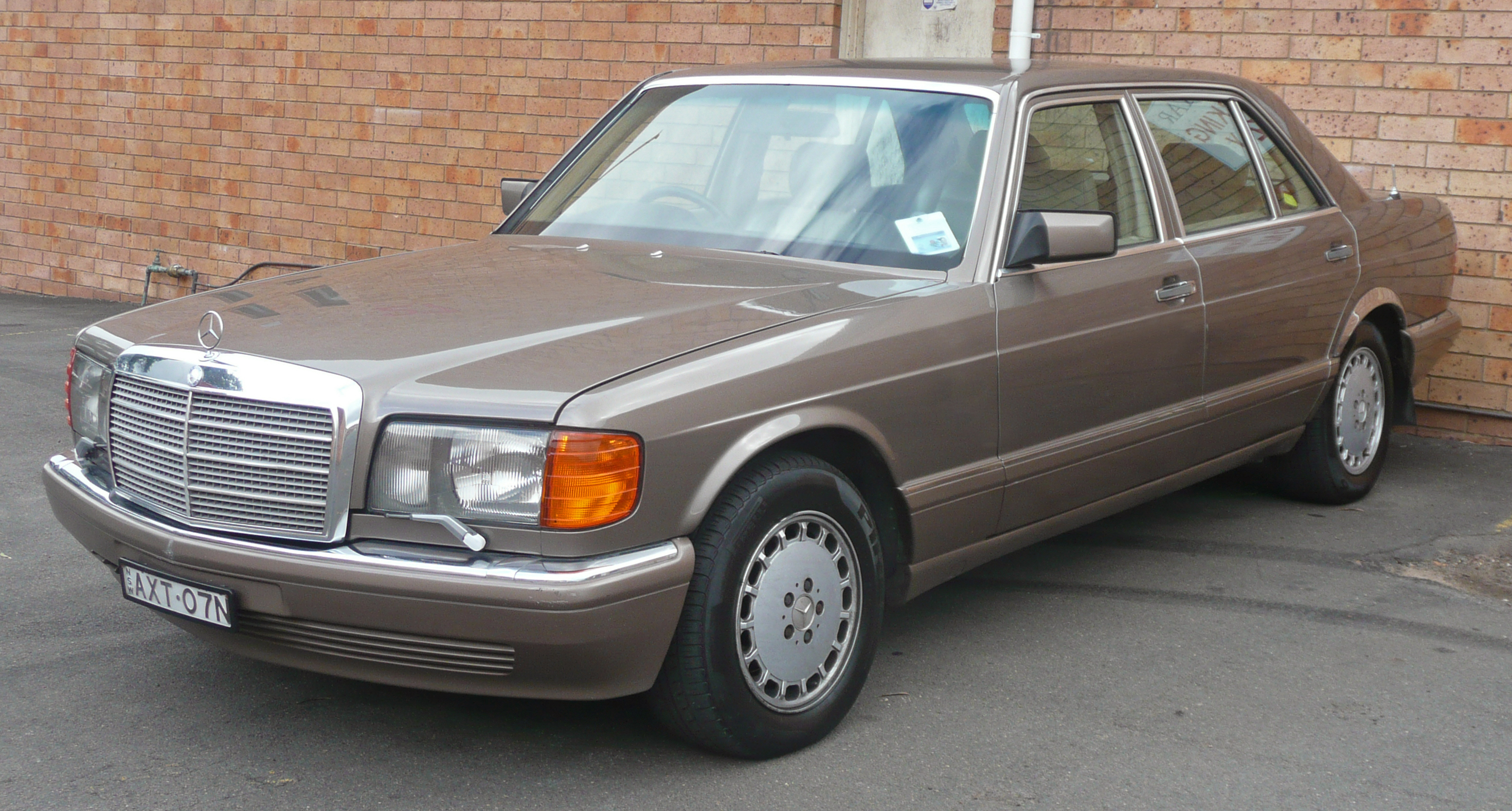 1987–1991 Mercedes-Benz 300 SEL (V 126) sedan. Photographed in Kirrawee, New South Wales, Australia.